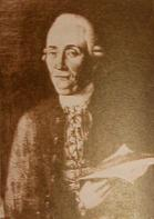 Portrait of Berend Otto von Mohrenschildt (1718-1789)